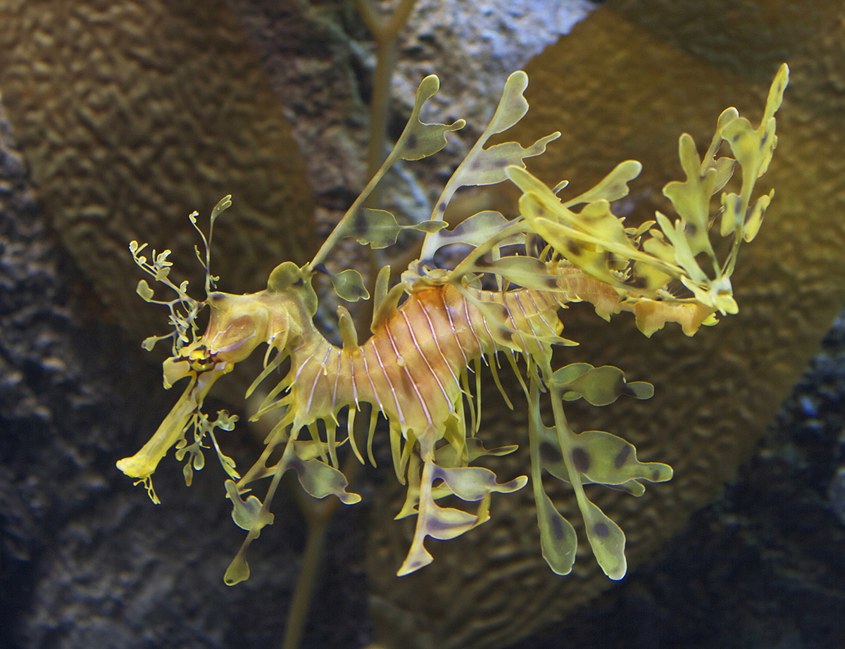 Leafy Seadragon native of the Southern Ocean off Australia. Photo taken at Monterey Bay Aquarium.